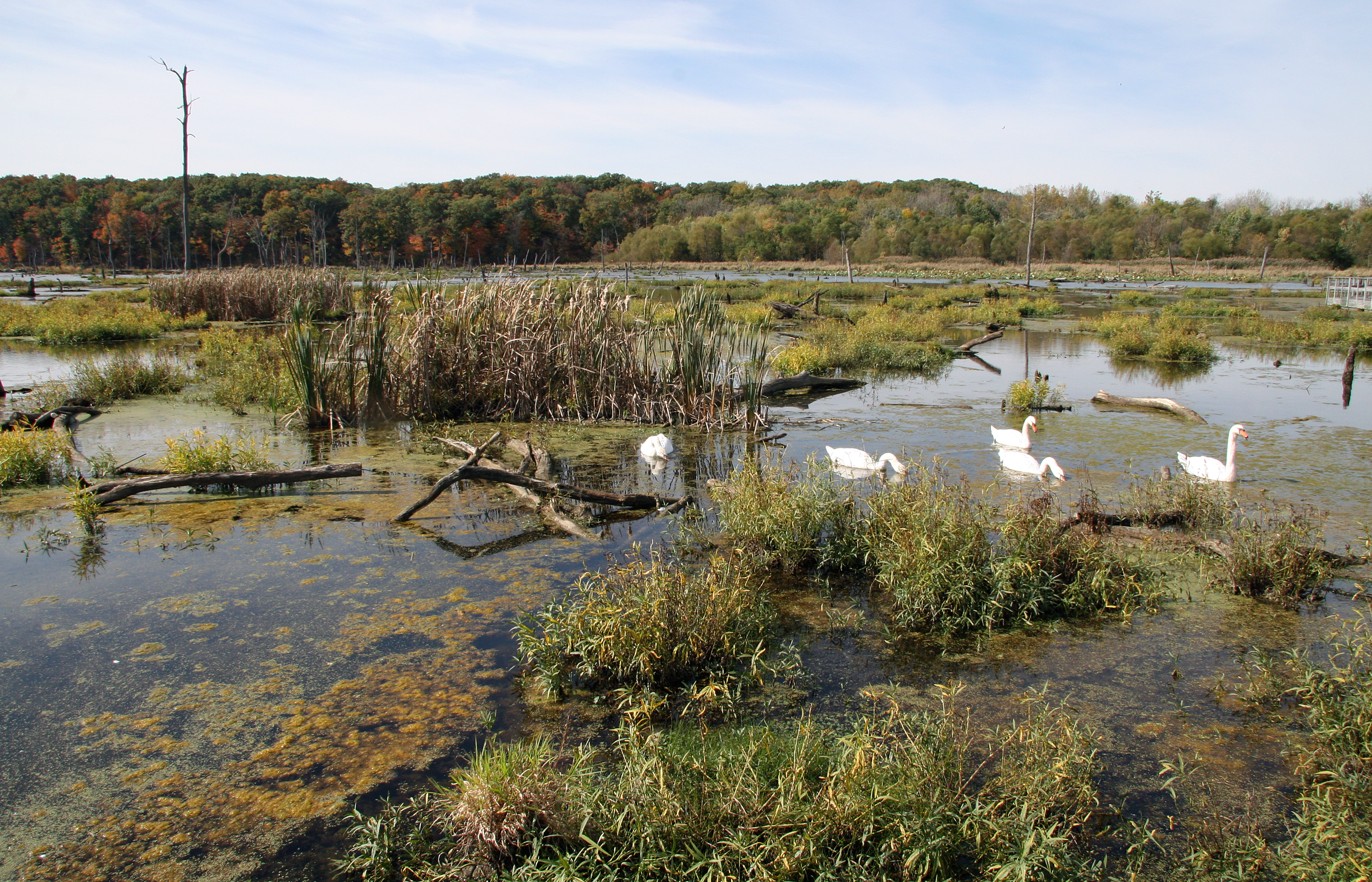 Kennekuk Marshes, a wetlands area near the northern end of Lake Vermilion in Vermilion County, Illinois. Mute Swans (Cygnus olor) are in the foreground.